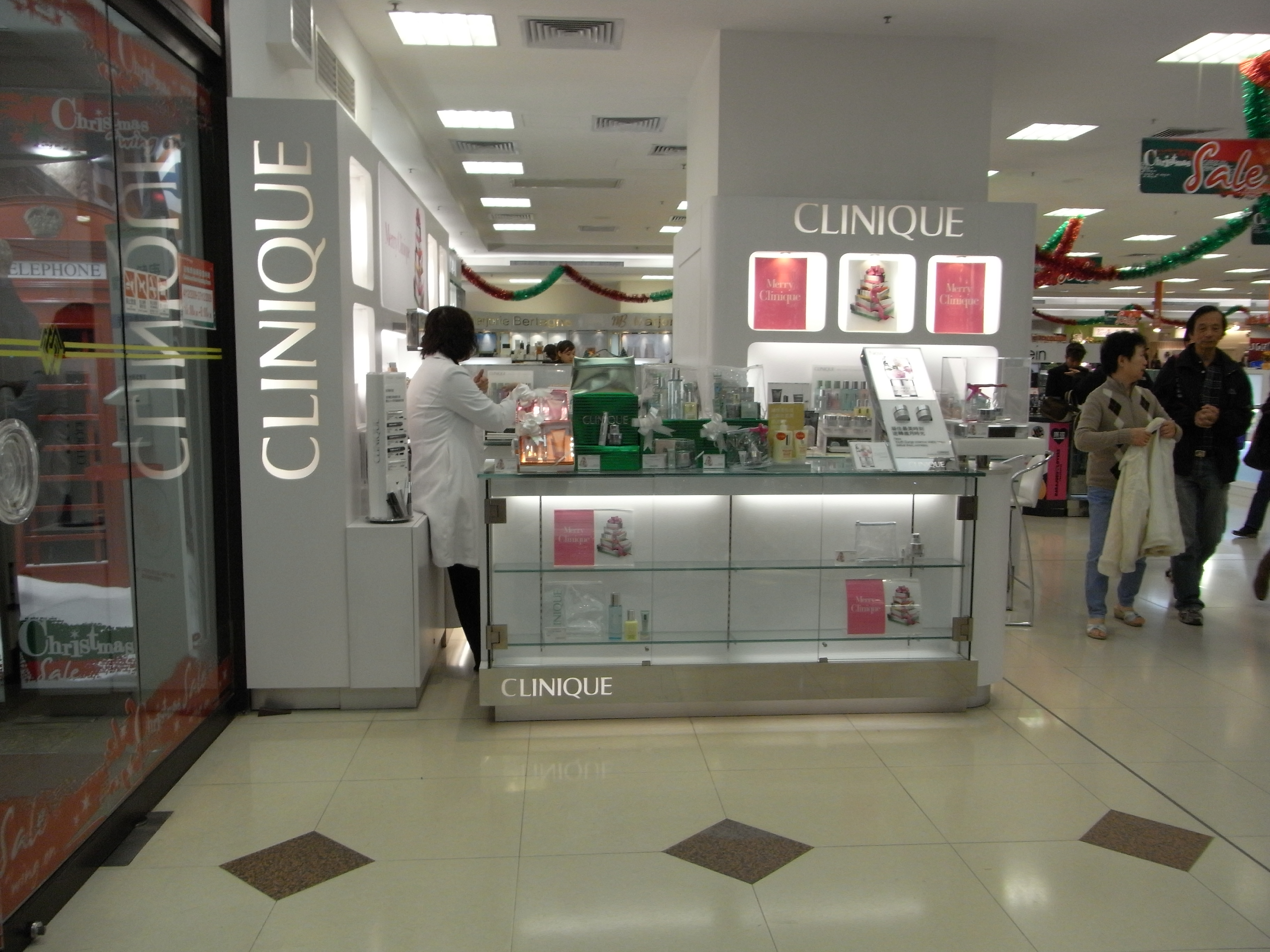 上環永安百貨 倩碧